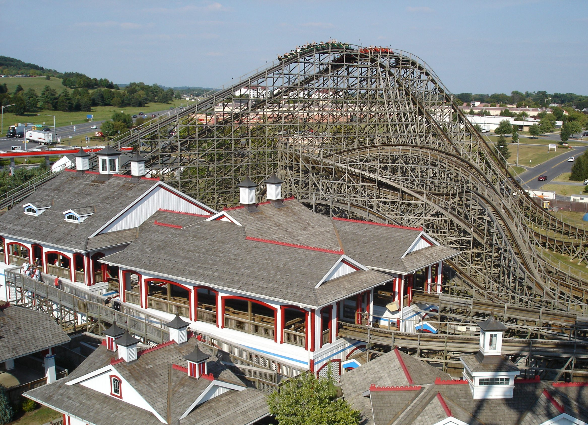 Lightning Racer at Hersheypark, Hershey PA, US. View of the loading station with the primary lift hill behind it. The two trains are about to descend down the first hill. Taken from the ferris wheel. Image was cropped.